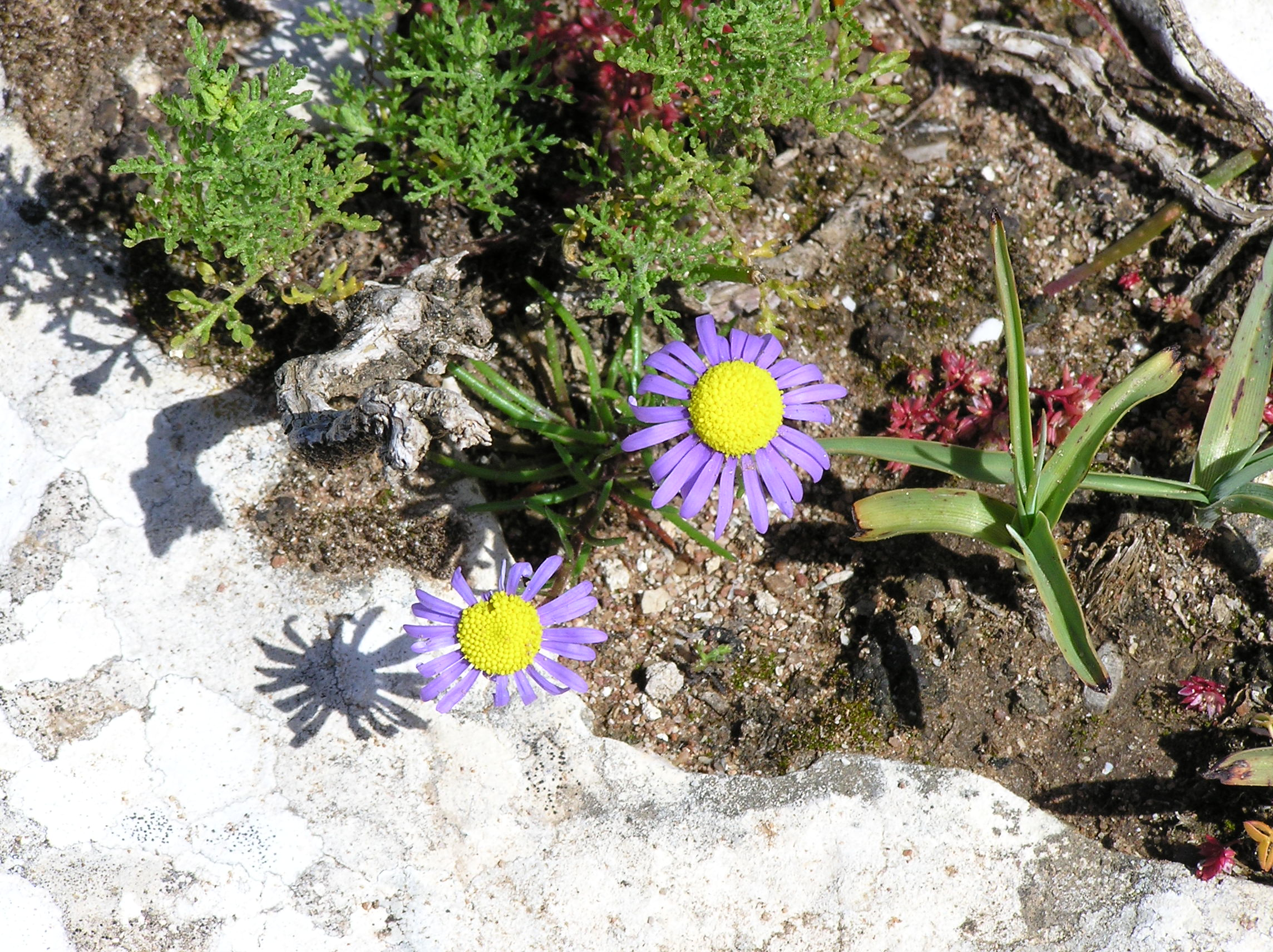 Blue Karoo daisy , Felicia australis (Alston) E.Phillips, West Coast National park, Western Cape, South Africa